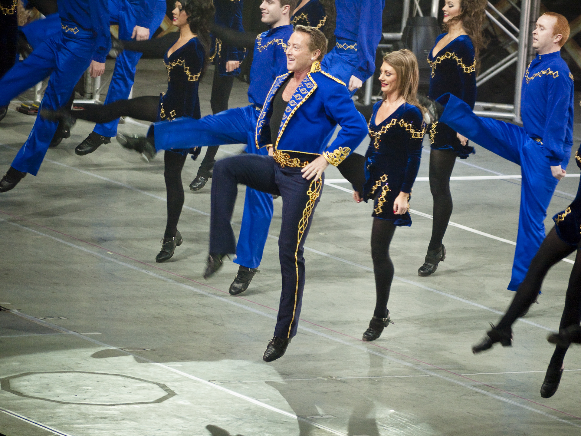 Michael Flatley and his troup